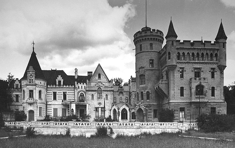 A Castle in the Estate of Khrapovitsky «Muromtsevo». Sudogda District, Vladimir Region, Russia